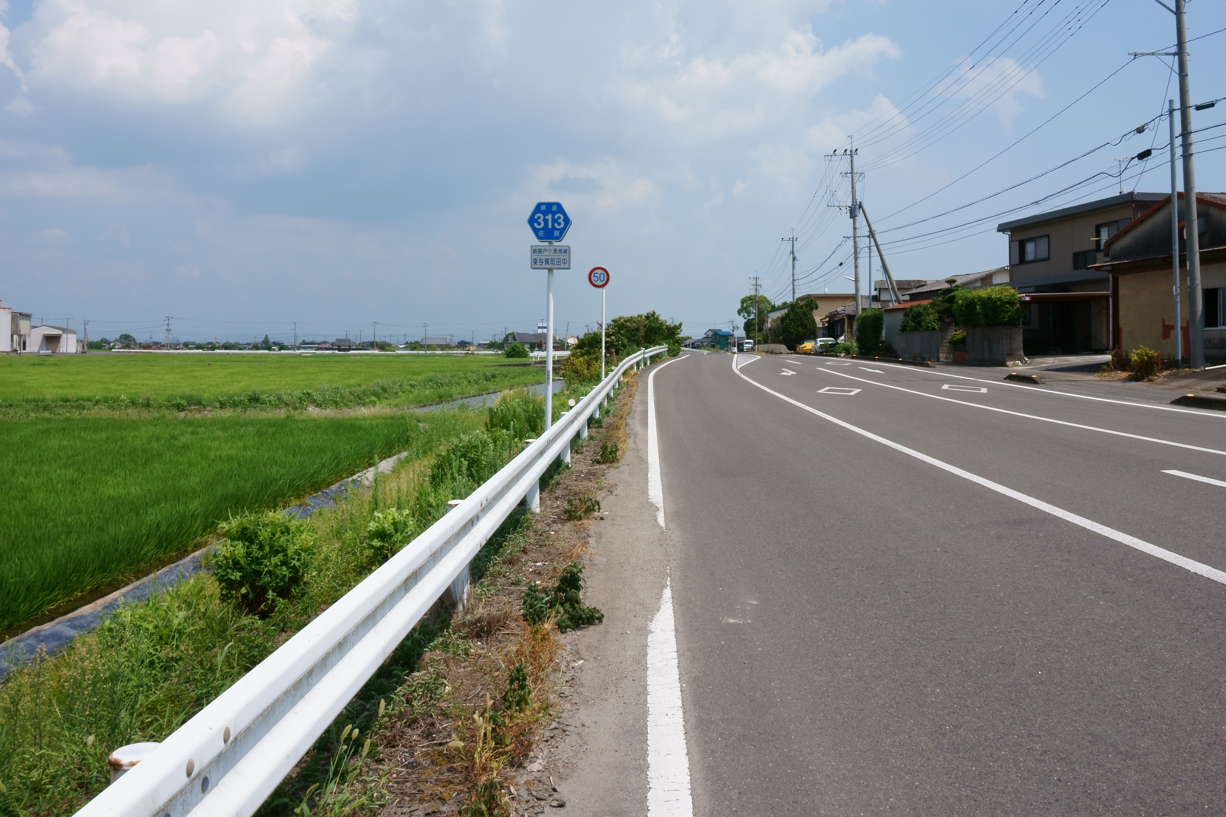 A part of Saga Prefectural Road Route 313 "Isagai Togari-ko Line" in Tanaka, Higashiyoka-cho, Saga city, Saga prefecture.